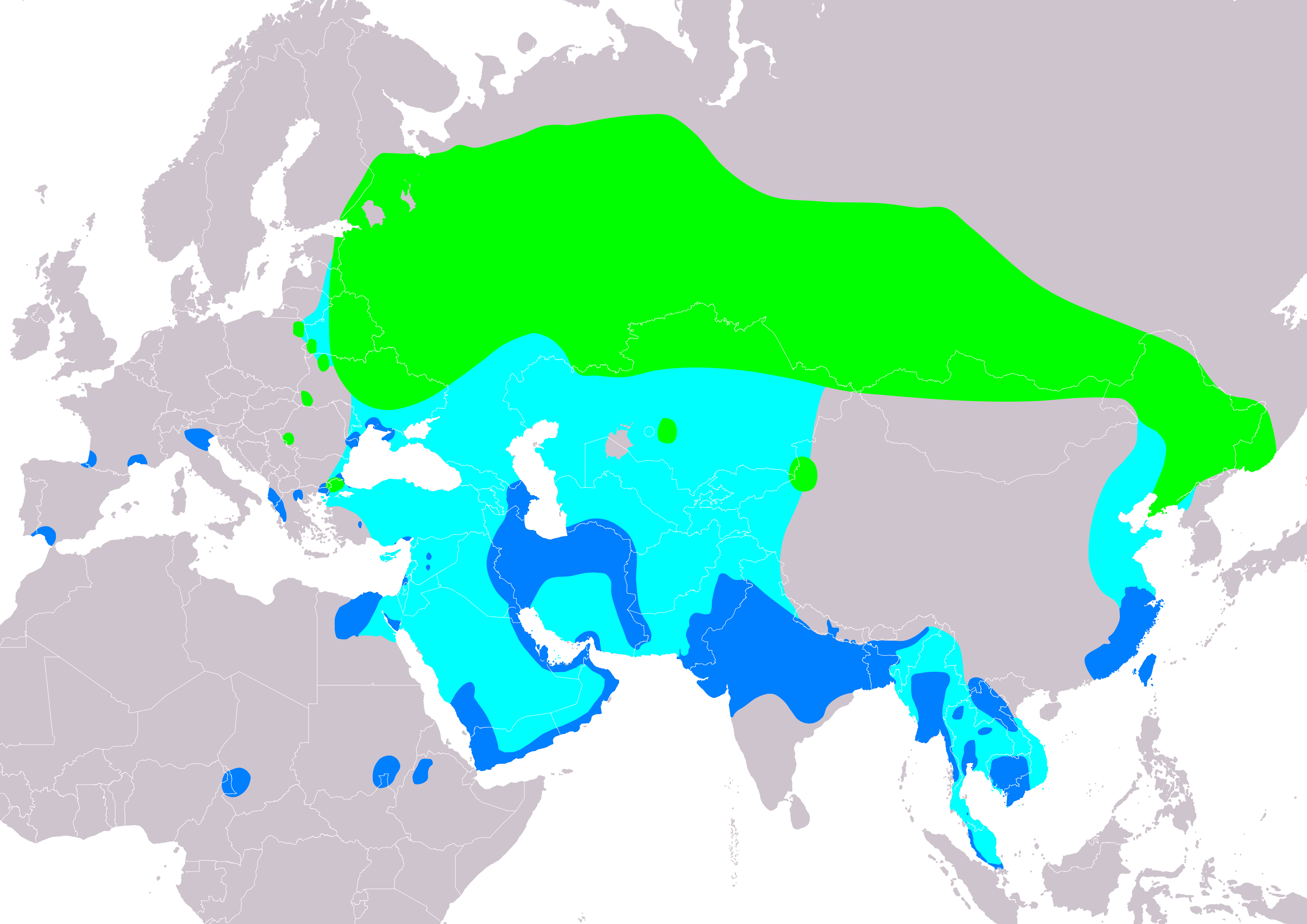 distribution map of greater Spotted Eagle (Clanga clanga) according to IUCN version 2018.2 , Legend: Extant, breeding (#00FF00), Extant, passage (#00FFFF), Extant, non-breeding (#007FFF)